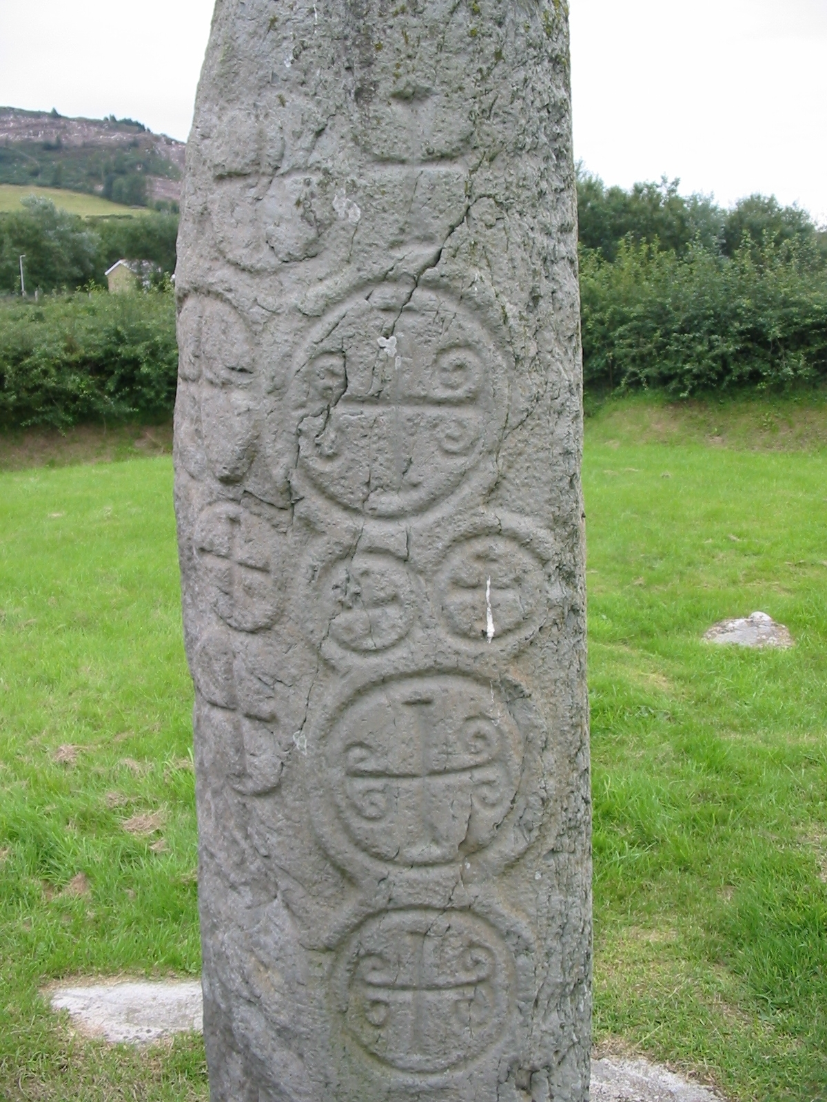 Inscribed stone, Kilnasaggart, County Armagh, dated to c. 700AD